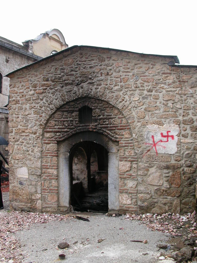 Old Church of St. George in Prizren, also known as the Runjevića Church, XIV century